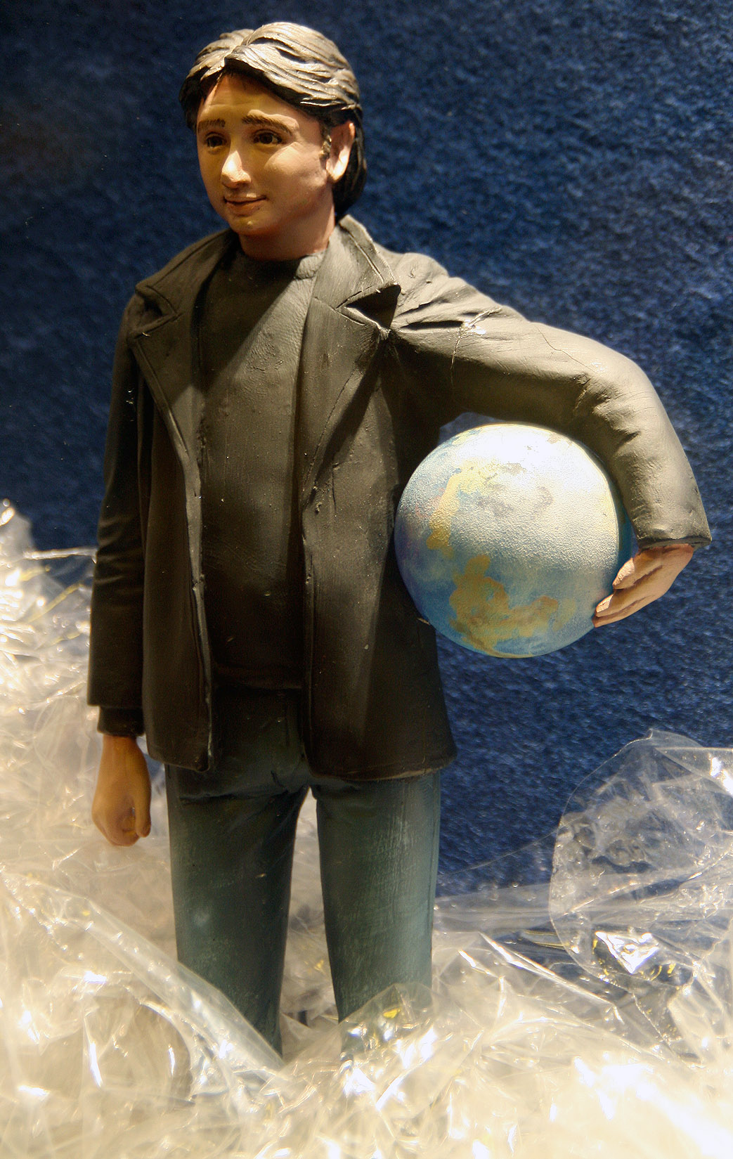 'Plastic Werner", the prototype of a plastic figure of filmmaker Werner Boote, created by Sagae during Bootes work on his film Plastic Planet.